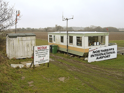 Terminal building at the old Northrepps International Airport; A Digital image of Northrepps International Airport